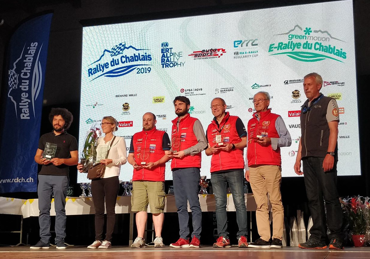 Prize giving ceremony of the E-Rallye du Chablais, June 1th, 2019, Aigle (Switzerland)